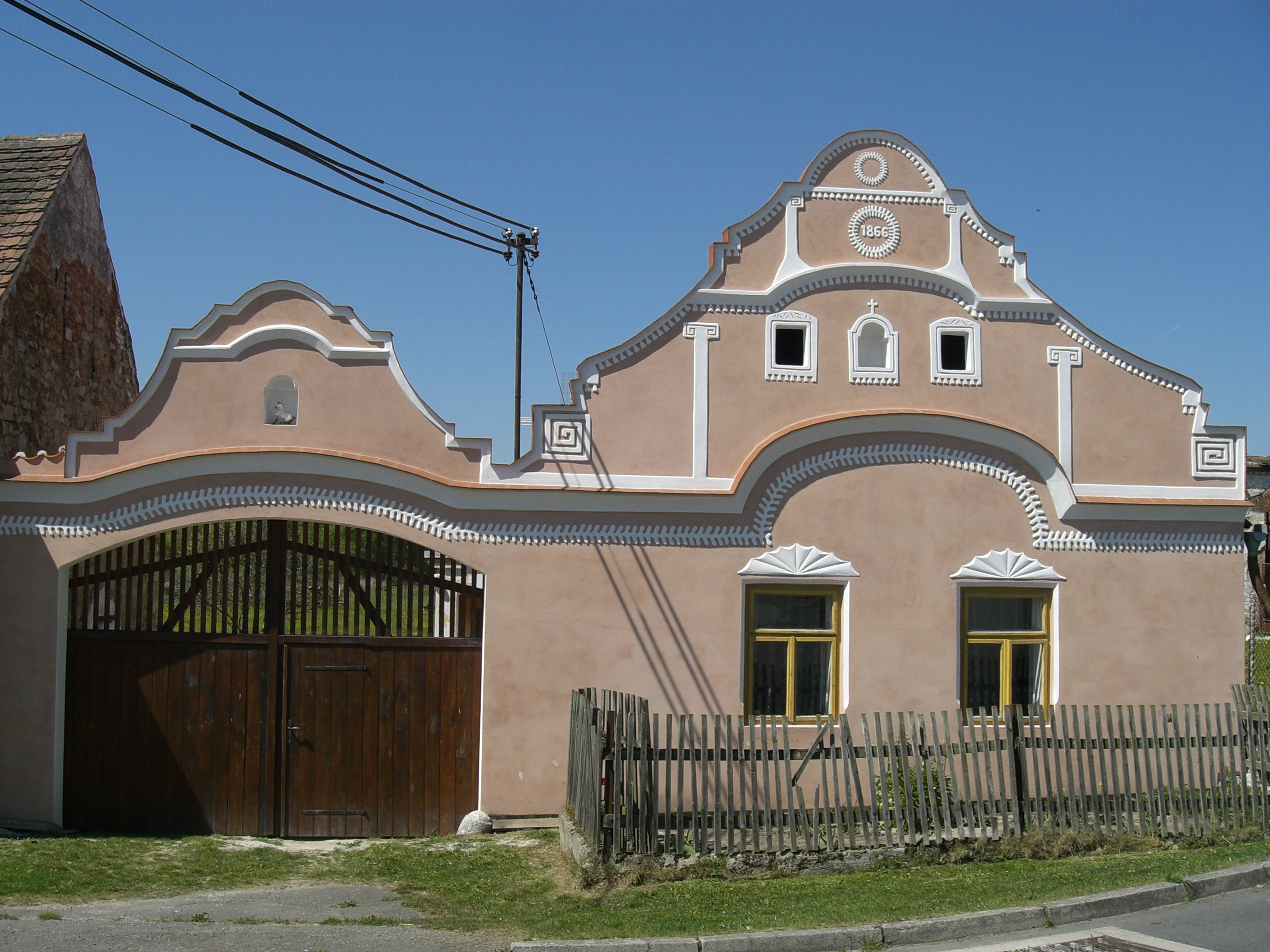 Kluky village in Písek district, Czech Republic.